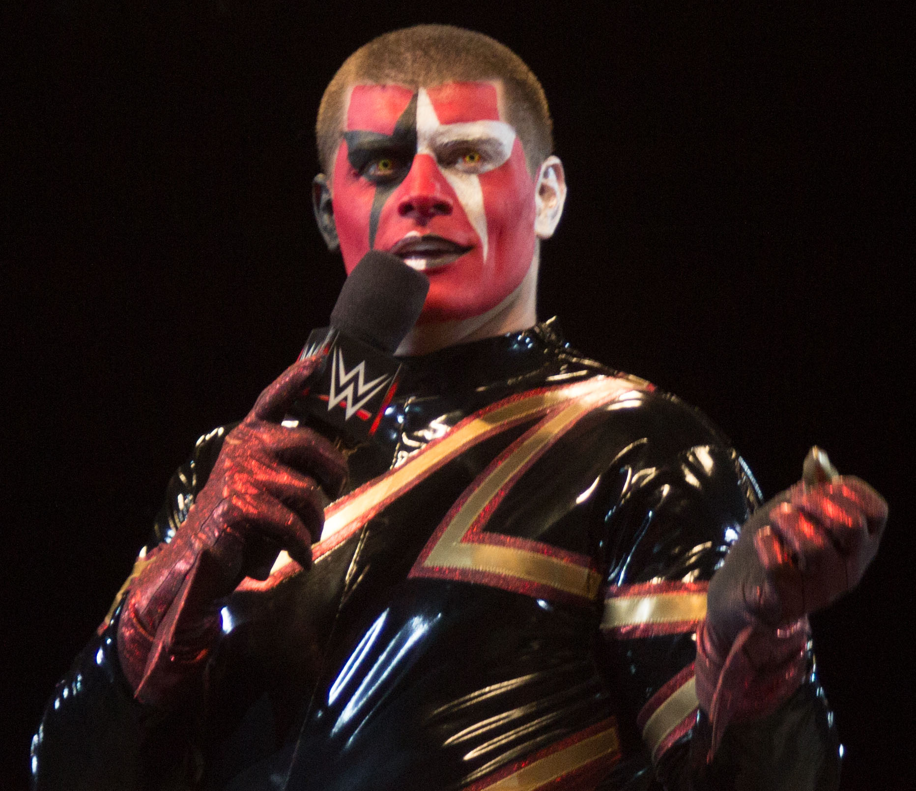 Stardust at a WWE live event on January 10, 2015.